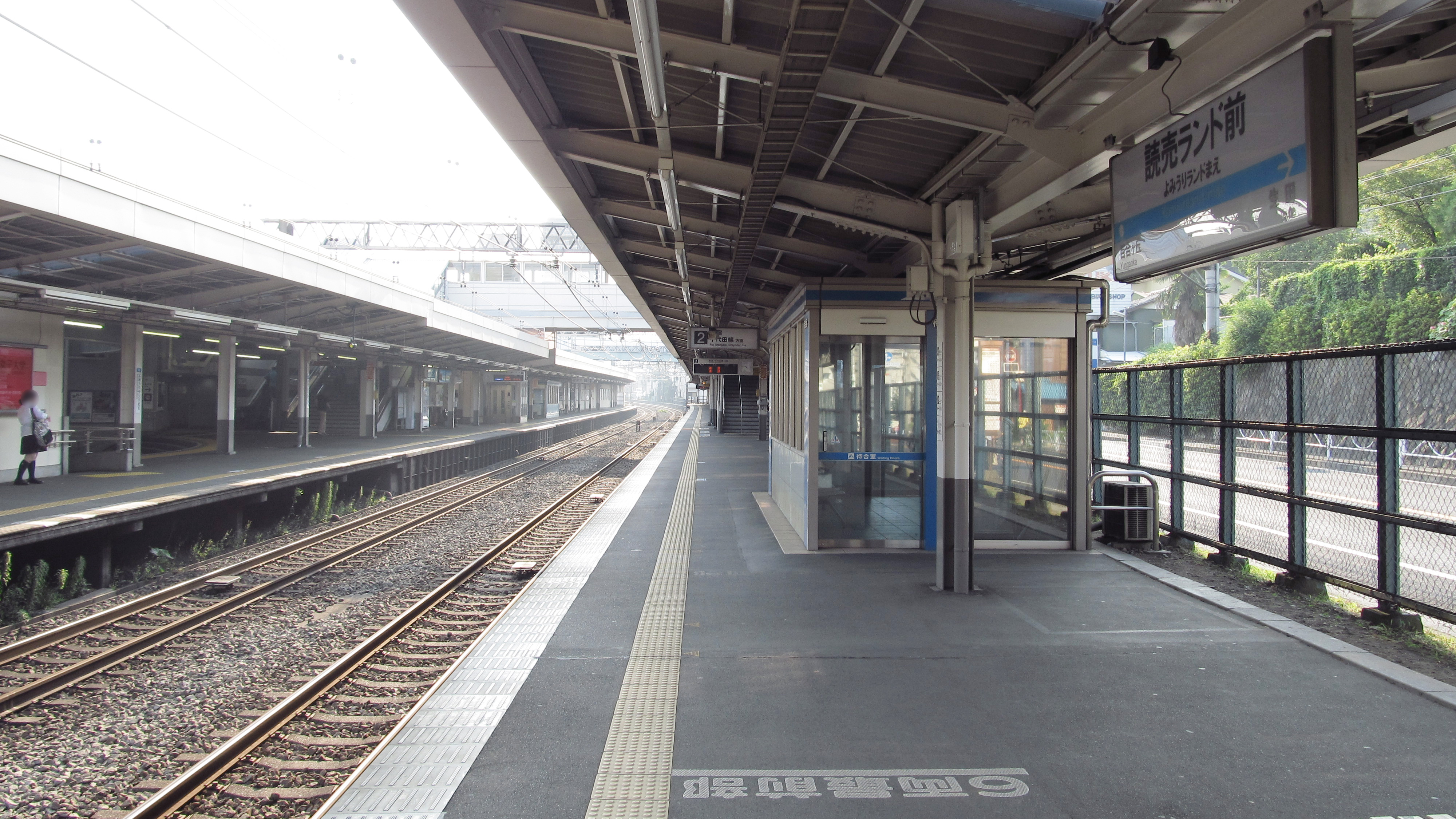 The platforms at Yomiuriland-mae Station on the Odakyū Electric Railway Odawara Line in Tama ward, Kawasaki city, Kanagawa, Japan